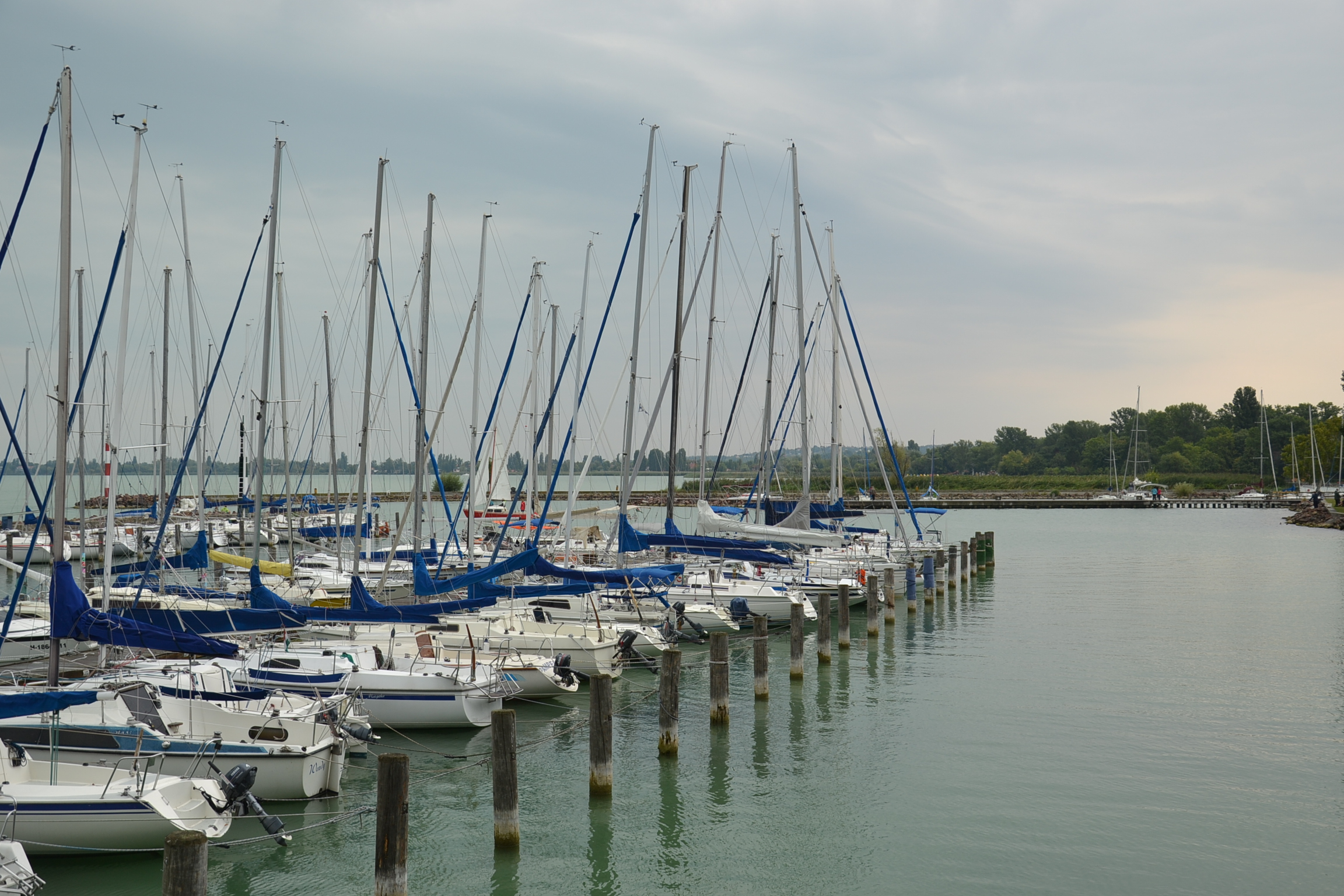 Harbor in Balatonföldvár, Hungary